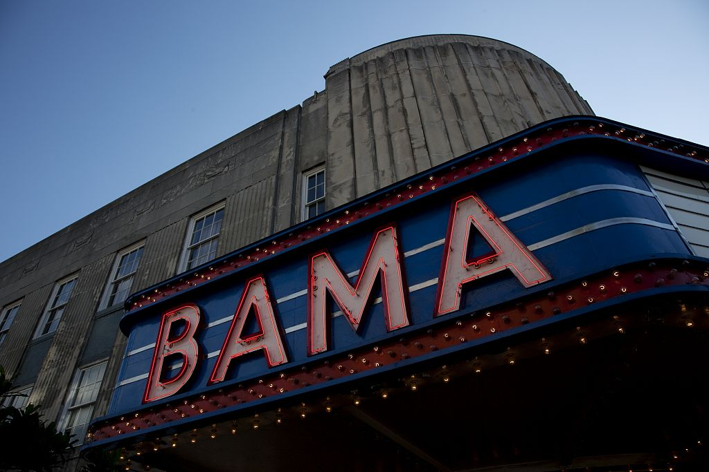 Detail of BAMA Theatre sign in Tuscaloosa, Alabama